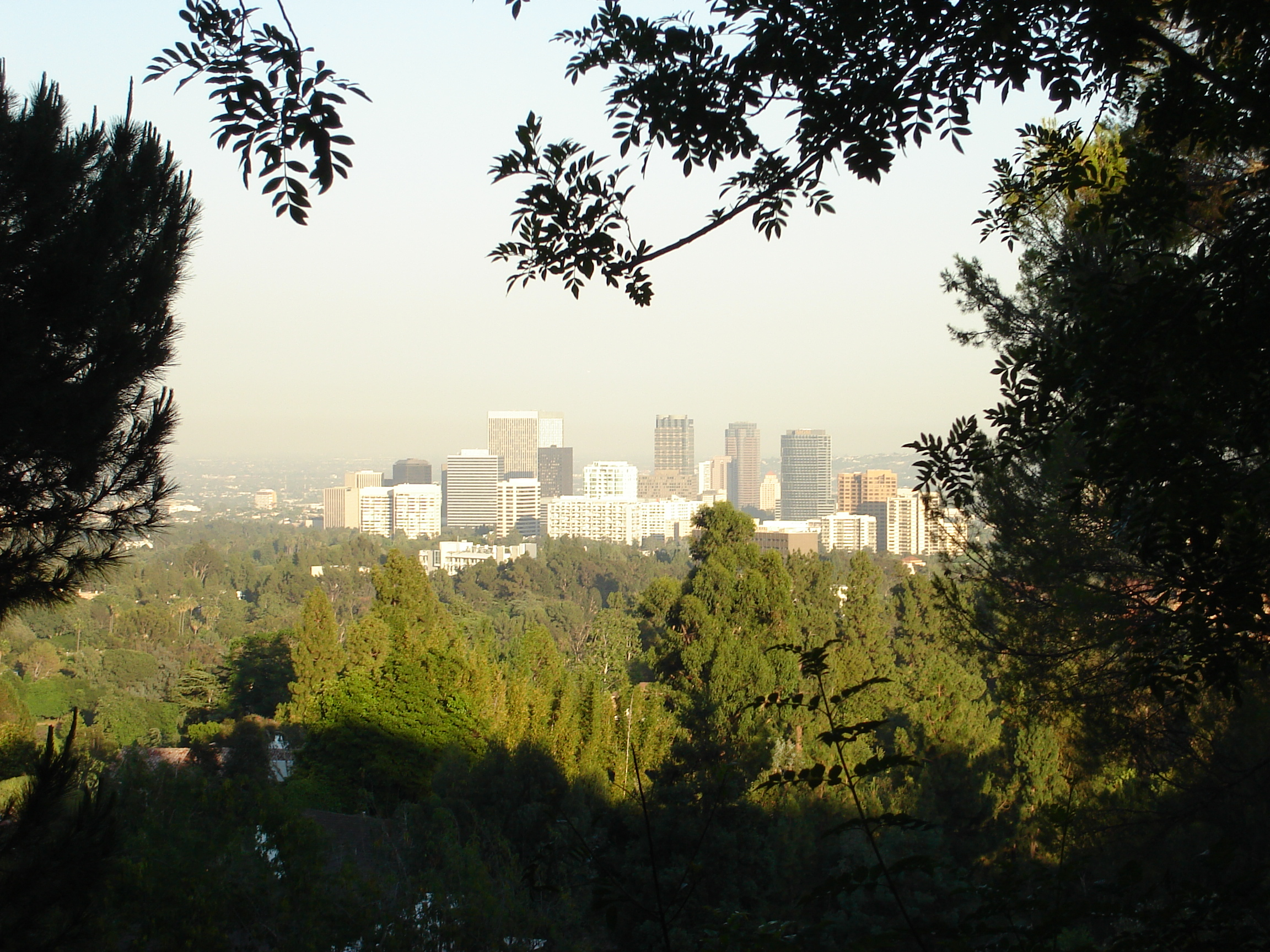 Westwood and Century City as seen from Bel Air